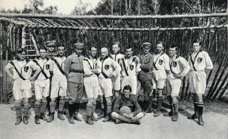 Polish Legionists playing soccer - the Legia team (1916)